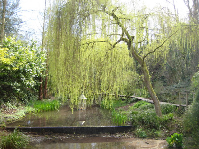 Bledlow: The Lyde Garden (2) See 751748 for details.